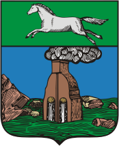 Coat of arms of Barnaul, Altai Krai (1846).